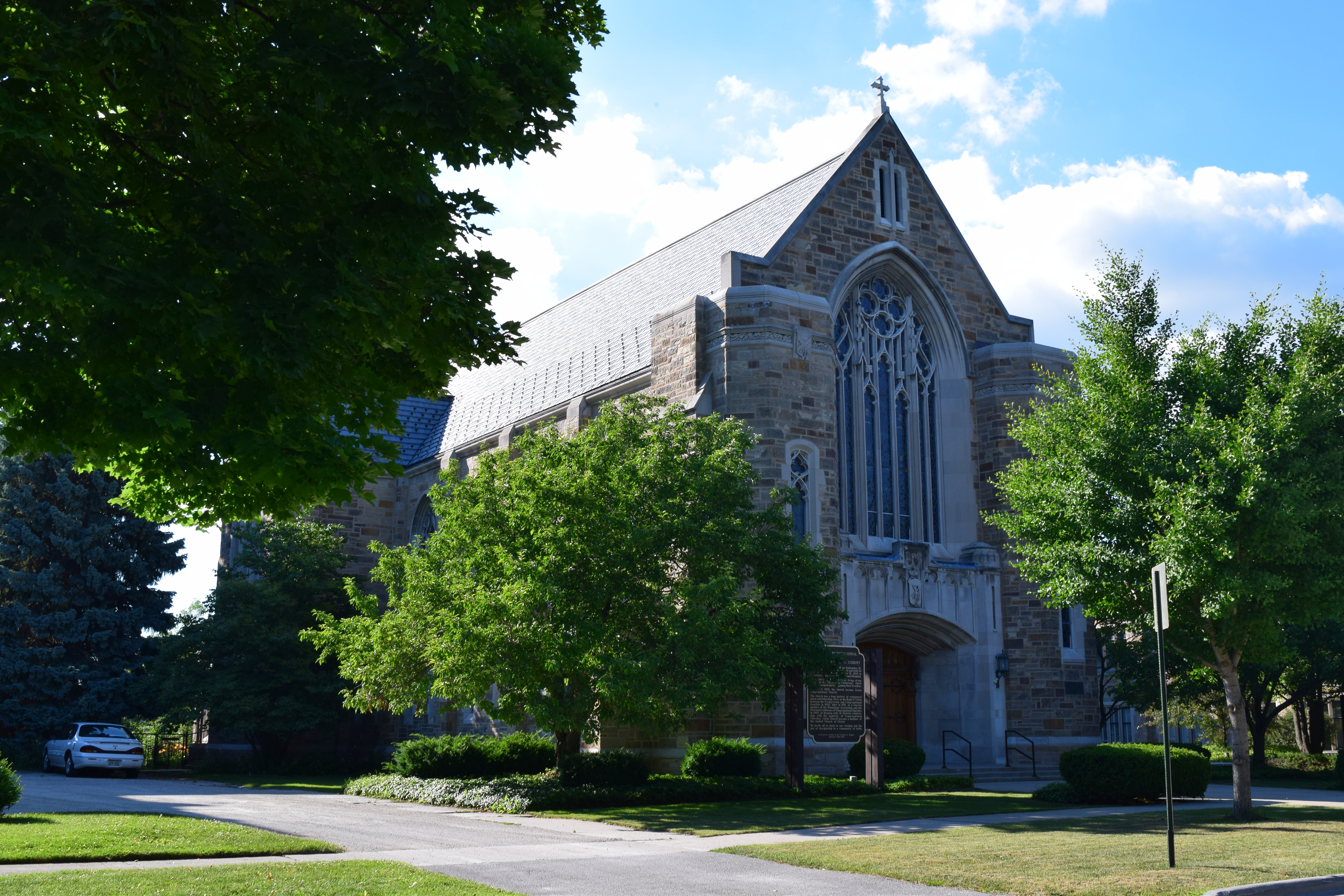 Union Congregational Church in the Astor Historic District in Green Bay, Wisconsin.